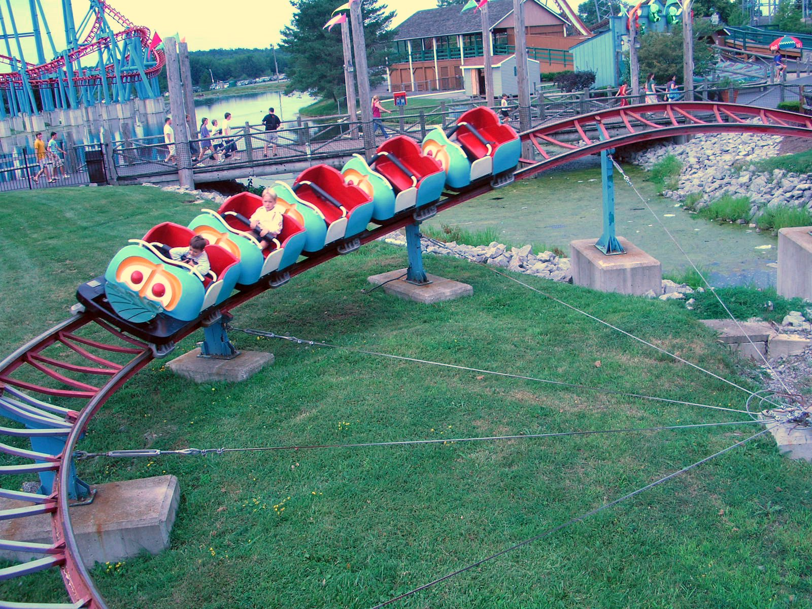 Picture taken by myself on 082406 at Six Flags Darien Lake.